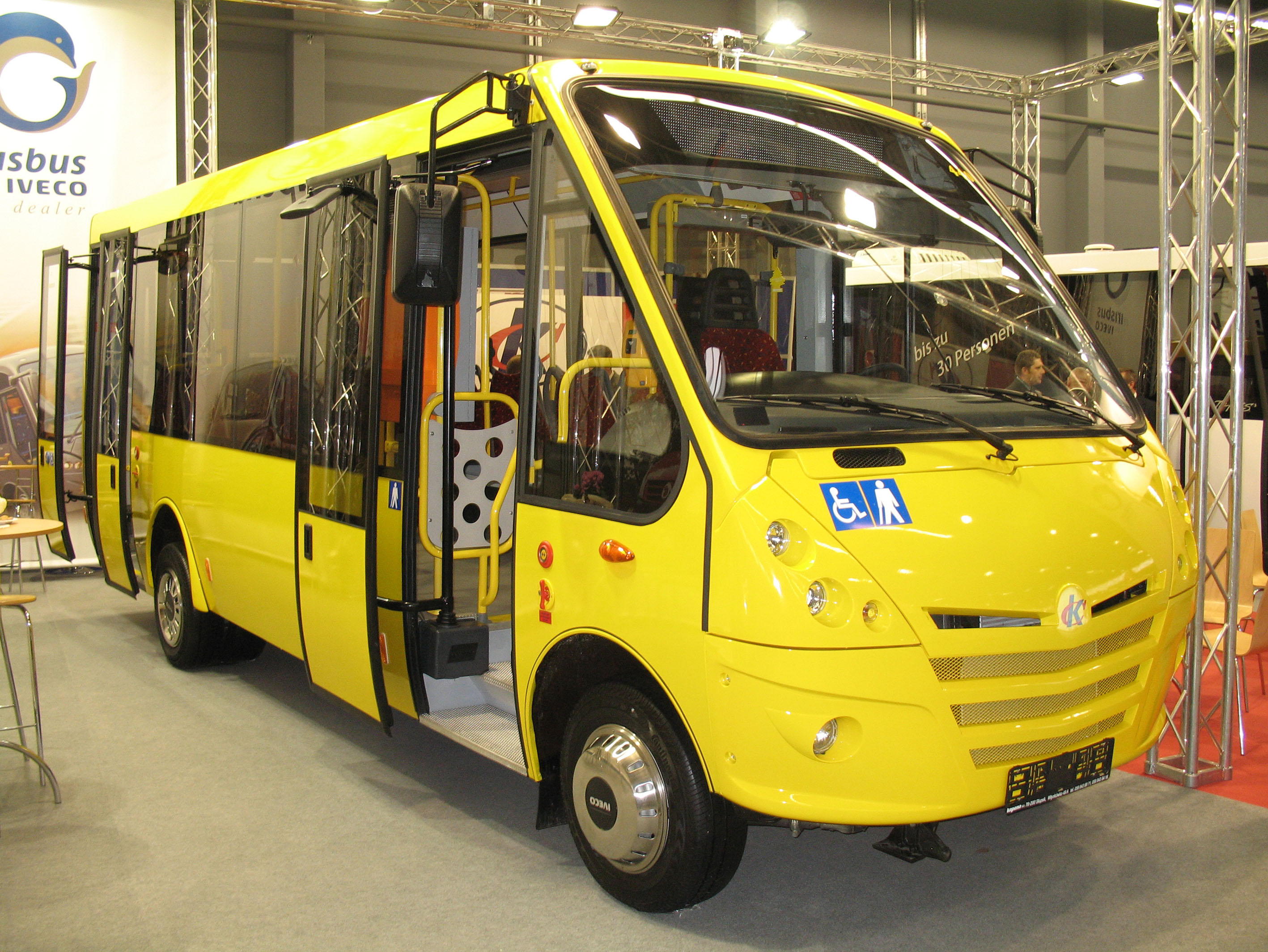 Kapena Urby low entry minibus (#440) in Kielce, Poland. Built 2011, MZK Nowy Targ operator. Transexpo 2011.